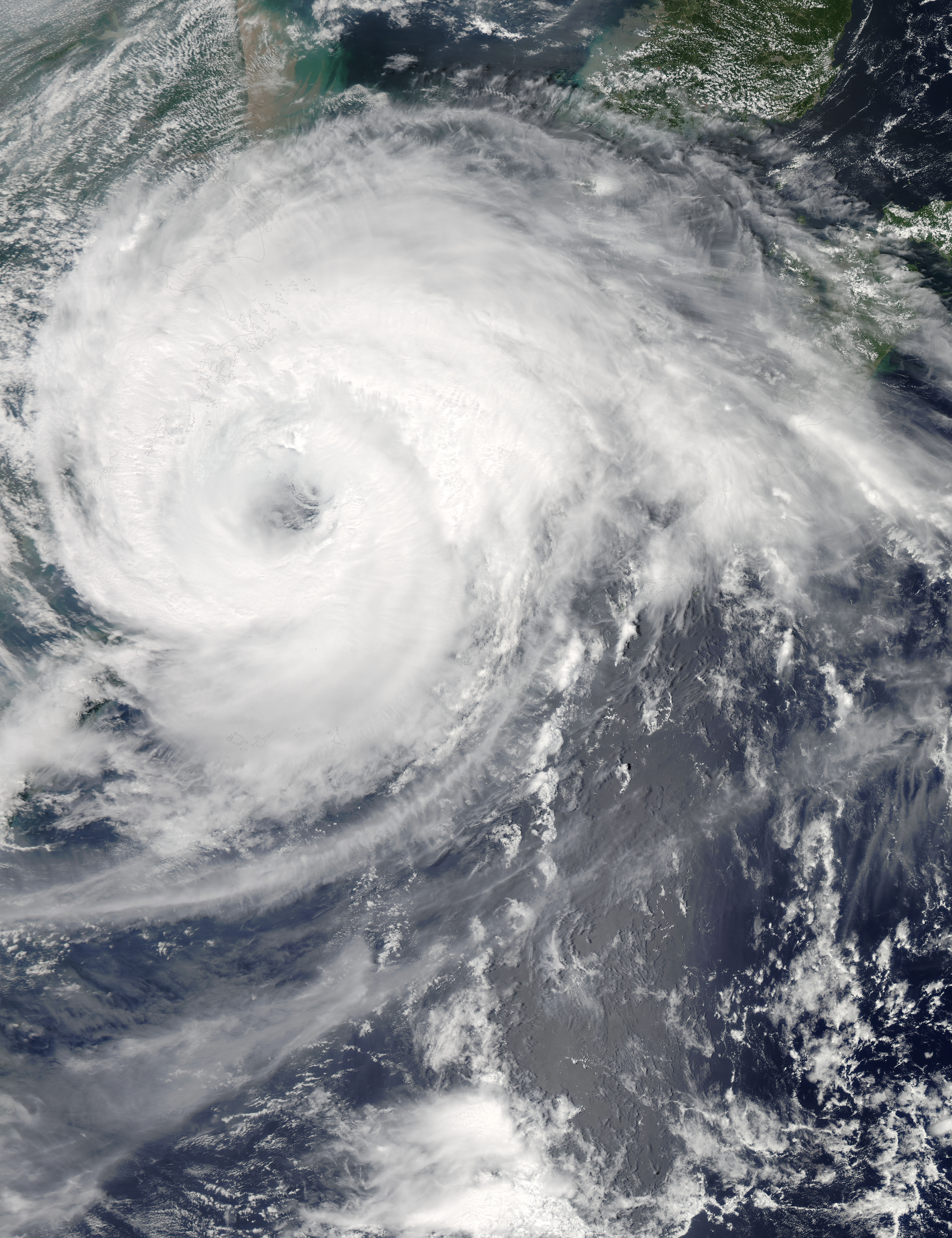 The Moderate Resolution Imaging Spectroradiometer (MODIS) on NASA’s Terra satellite captured this natural-color, high definition image of Typhoon Haikui, at peak intensity at 4:35(UTC) on August 7, 2012